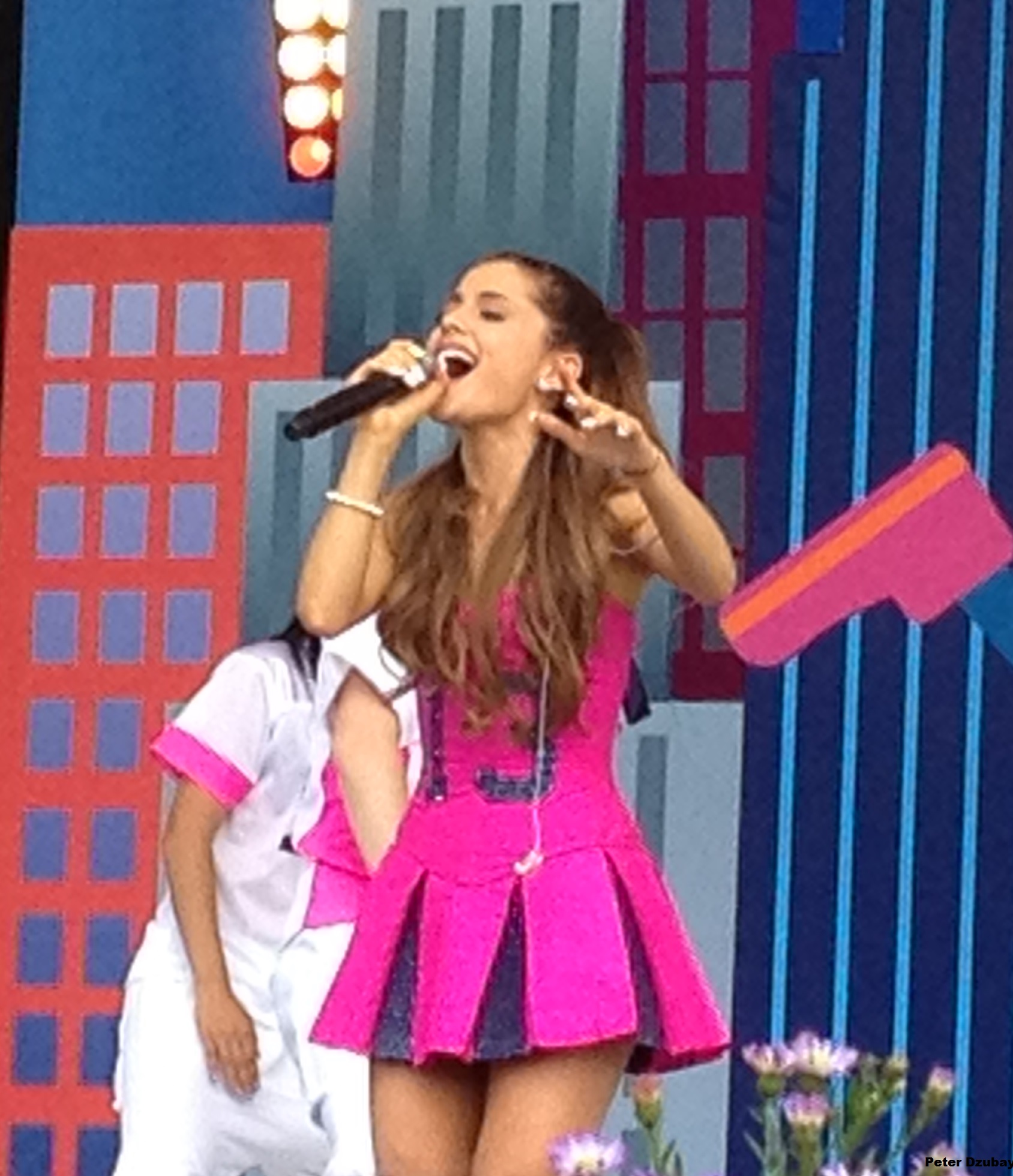 Ariana Grande performing in the World Wide Day of Play 2013. PHOTO BY PETER DZUBAY.